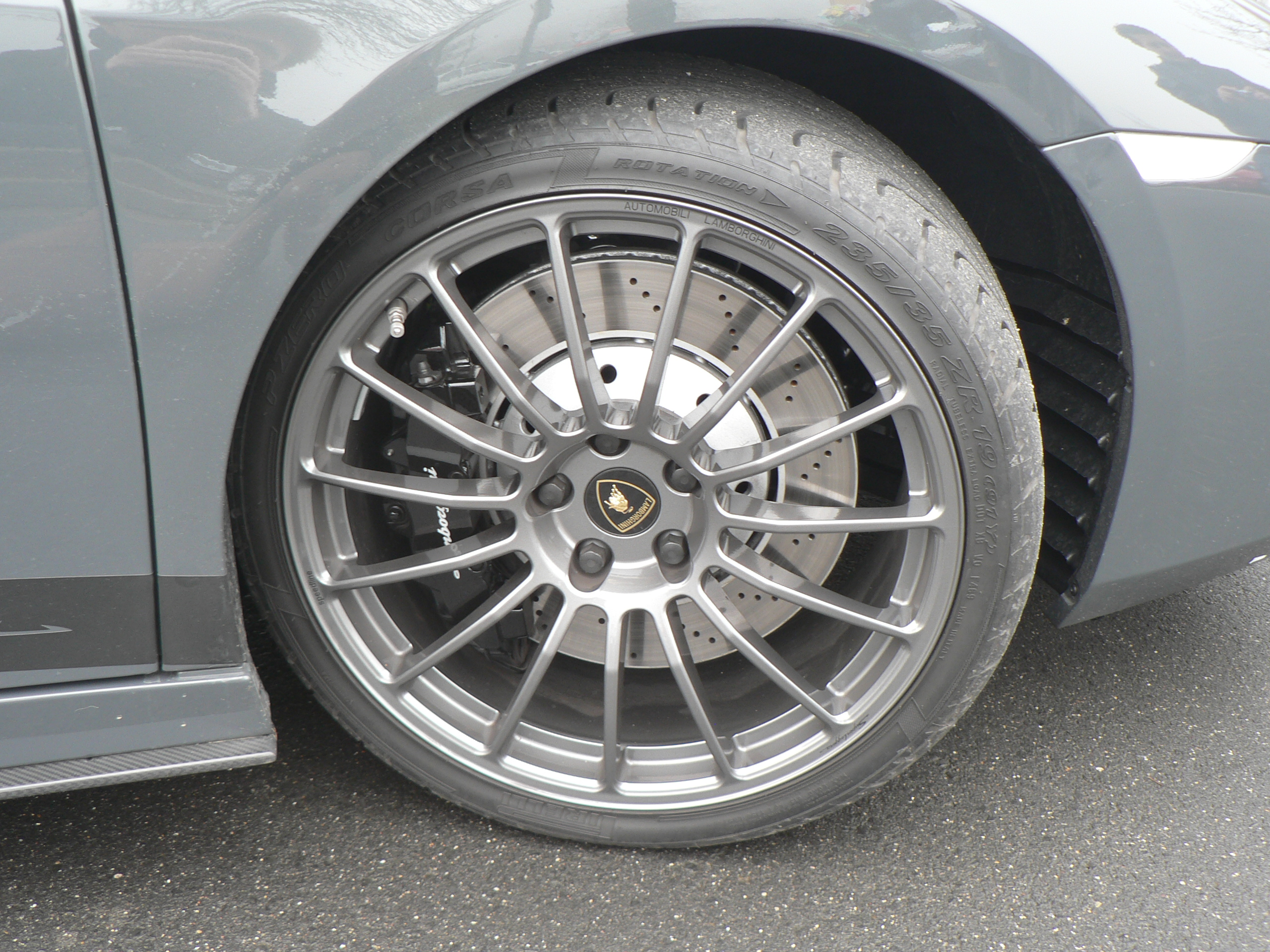 Detail of the front wheel and brake of a Lamborghini Gallardo Superleggera.